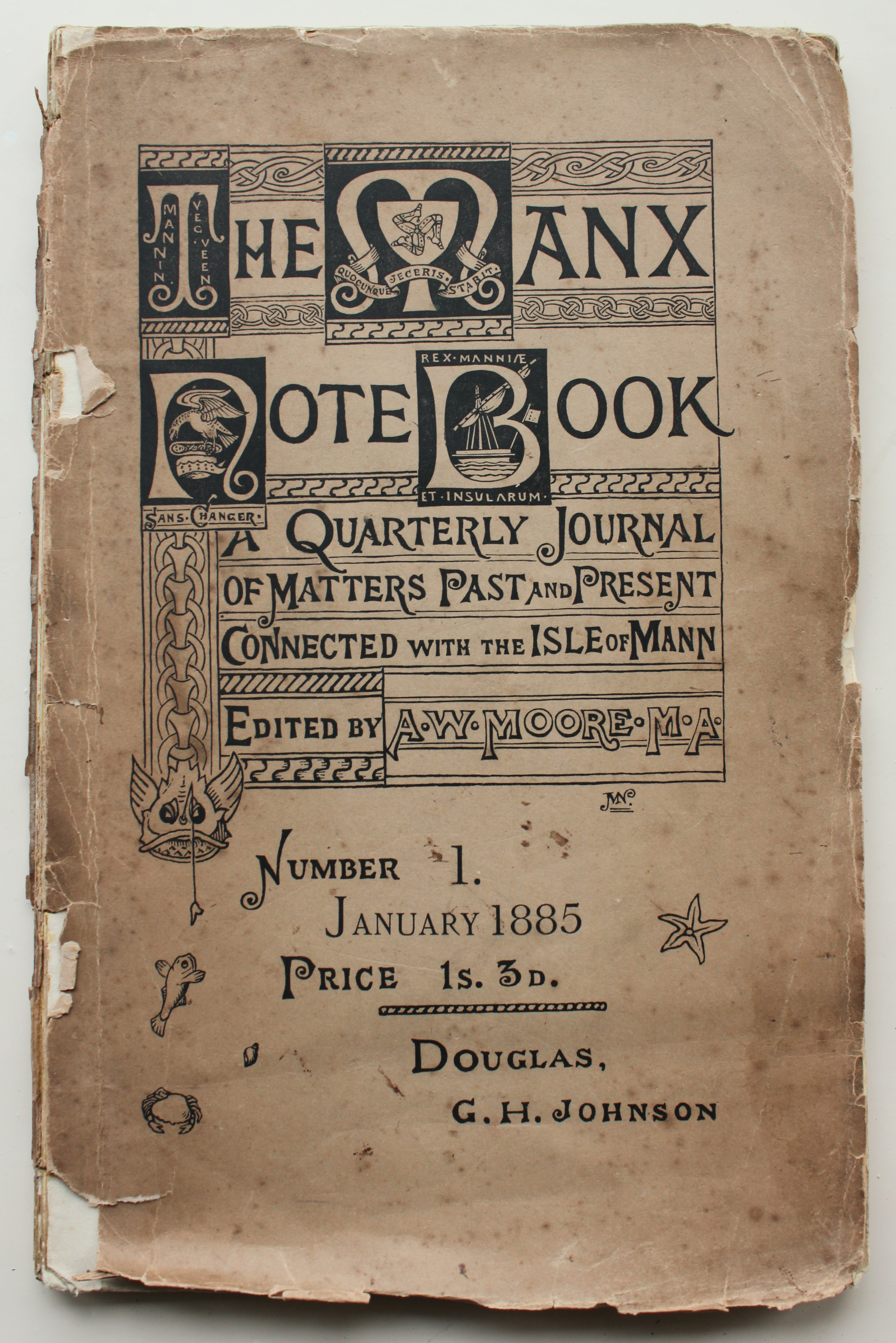 The front cover of the first edition of 'The Manx Notebook, edited by A. W. Moore, January 1885